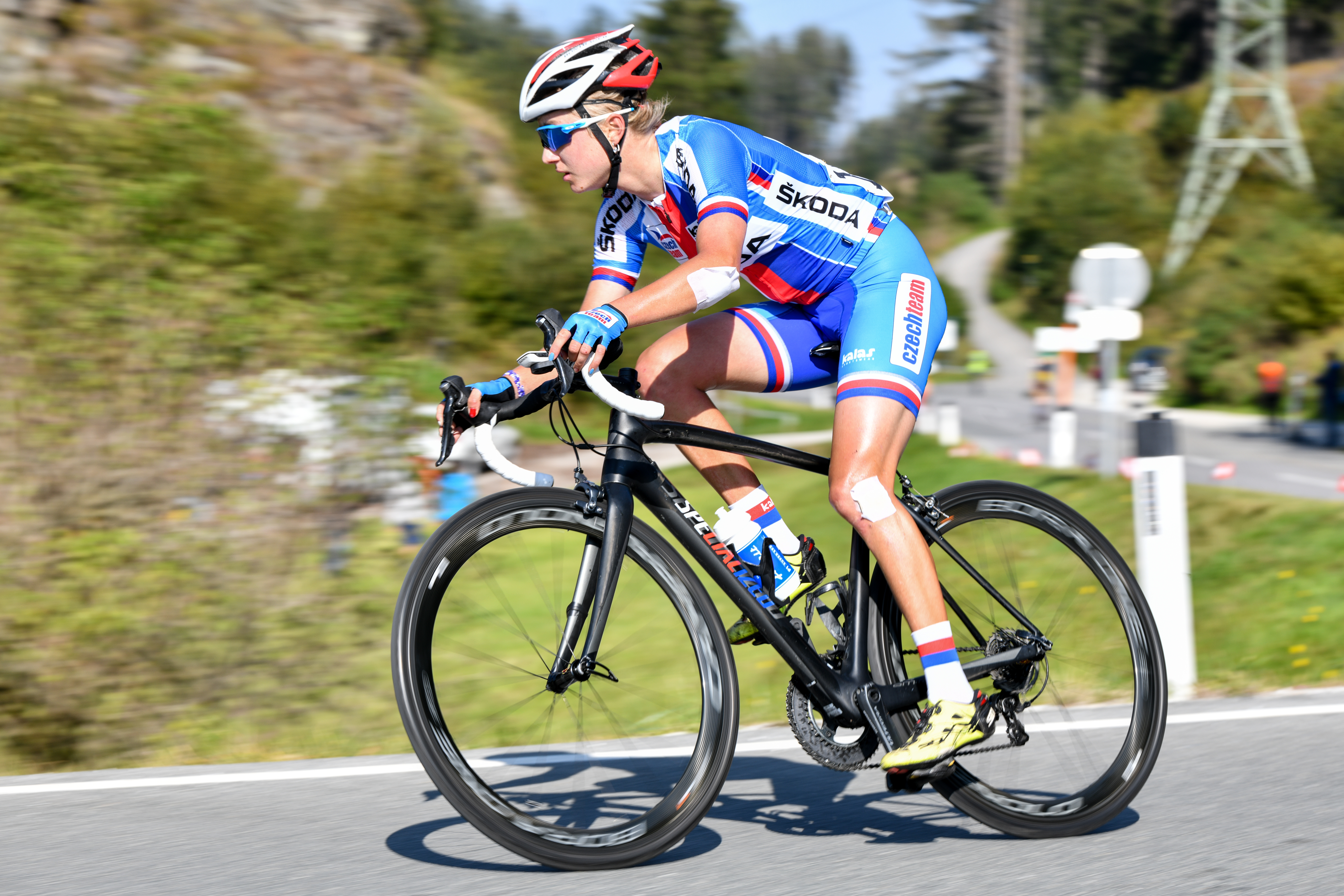 2018 UCI Road World Championships Innsbruck/Tirol Women Elite Road Race. Picture shows: Tereza Korvasova of Czech Republic